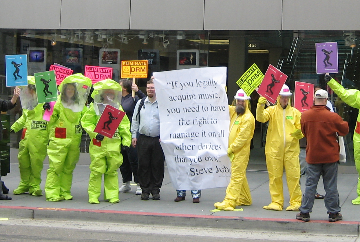 Flashmob in front of an applestore on June 10th 2006